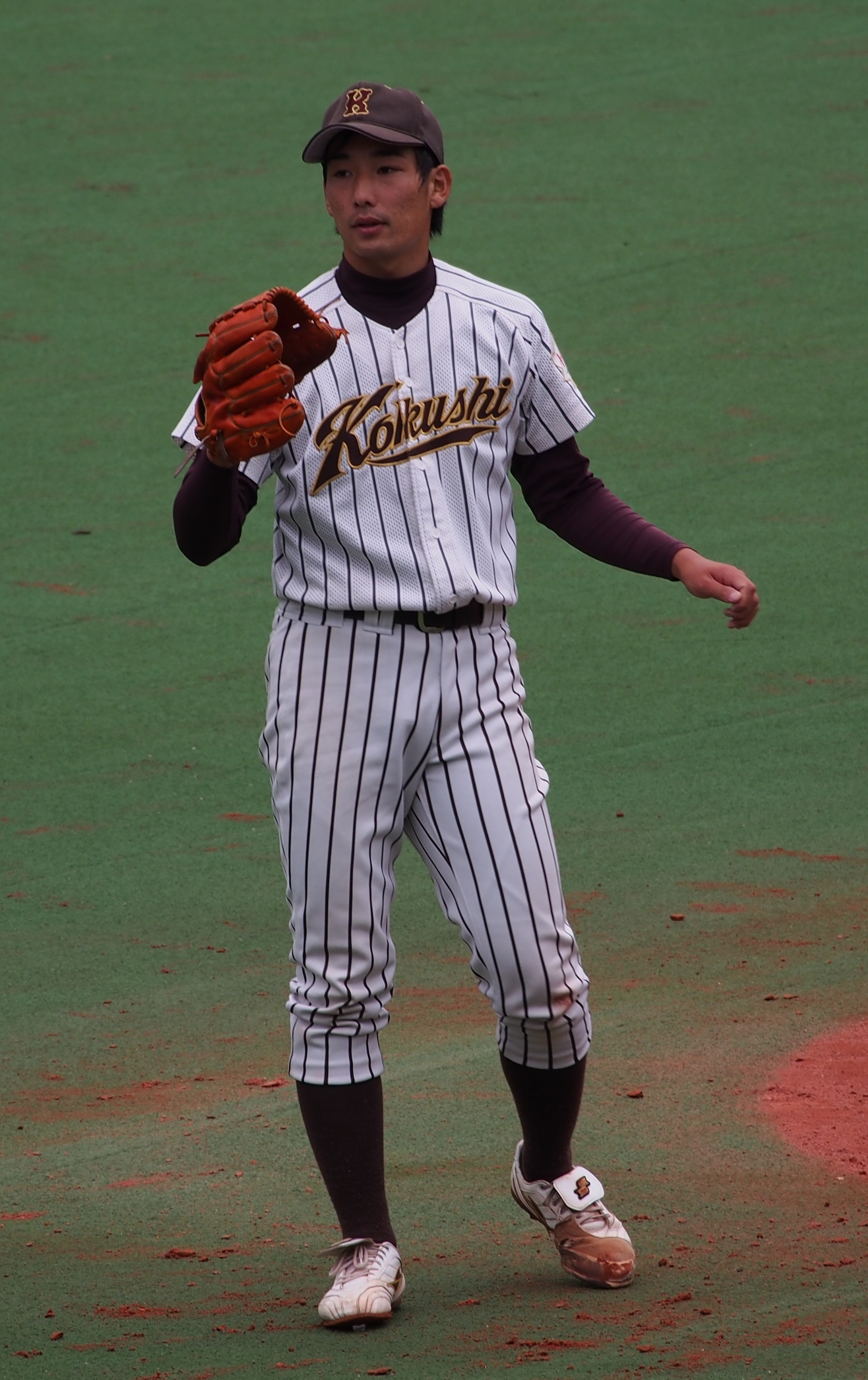 Suguru Iwazaki, pitcher of the Kokushikan University Baseball Club, at Meiji Jingu Sub Stadium.